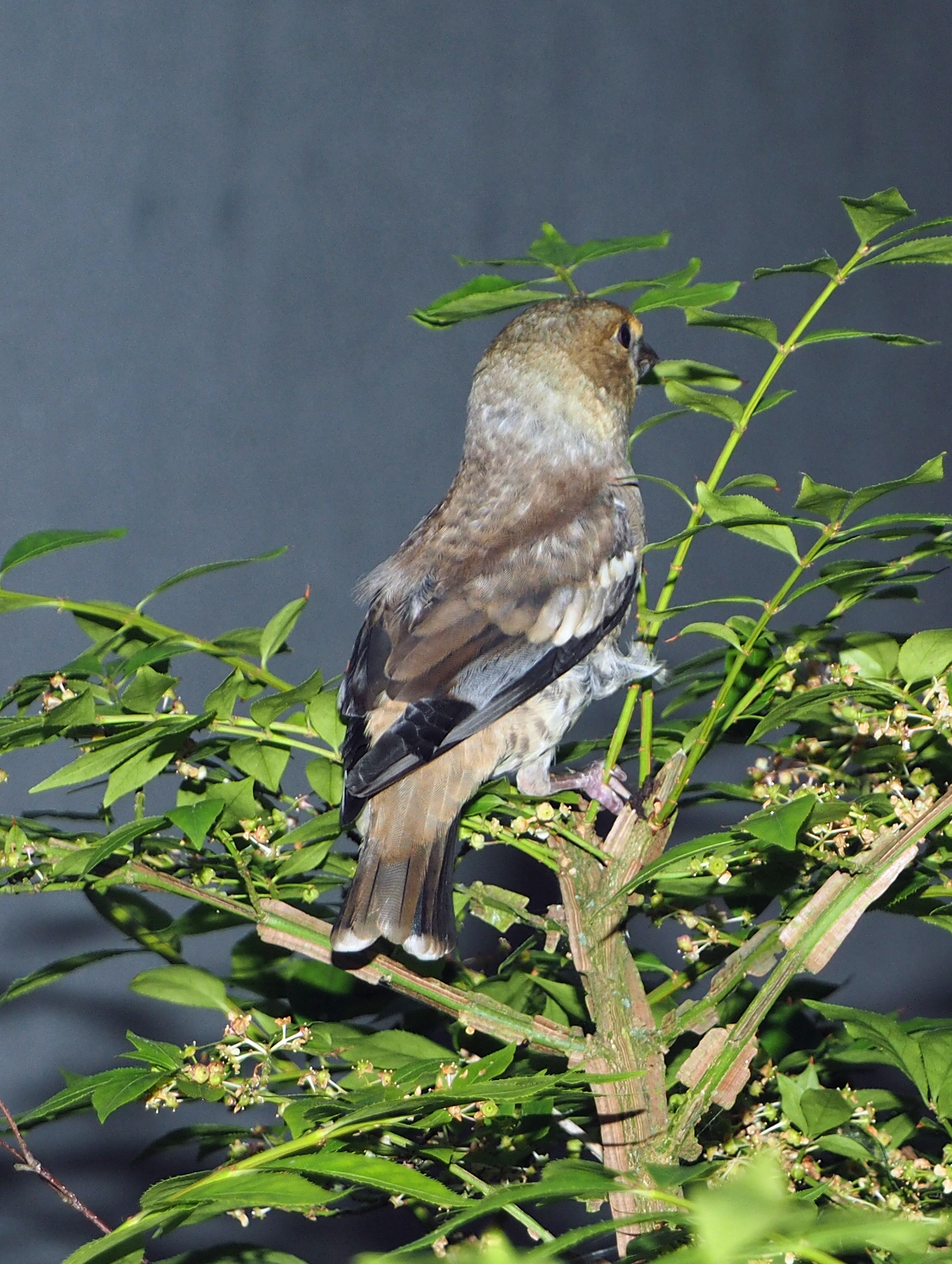 Hawfinch (Coccothraustes coccothraustes) juvenile